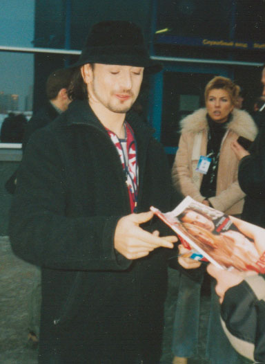 Ilia Averbukh giving an autograph at the Grand Prix Final 2003/04